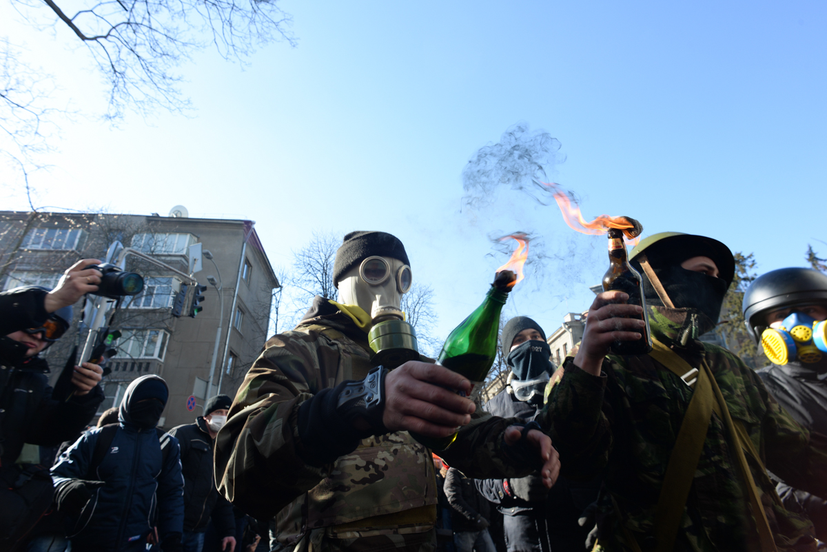 Masked and hooded protesters holding Molotov Cocktails seen during clashes in Ukraine, Kyiv. Events of February 18, 2014